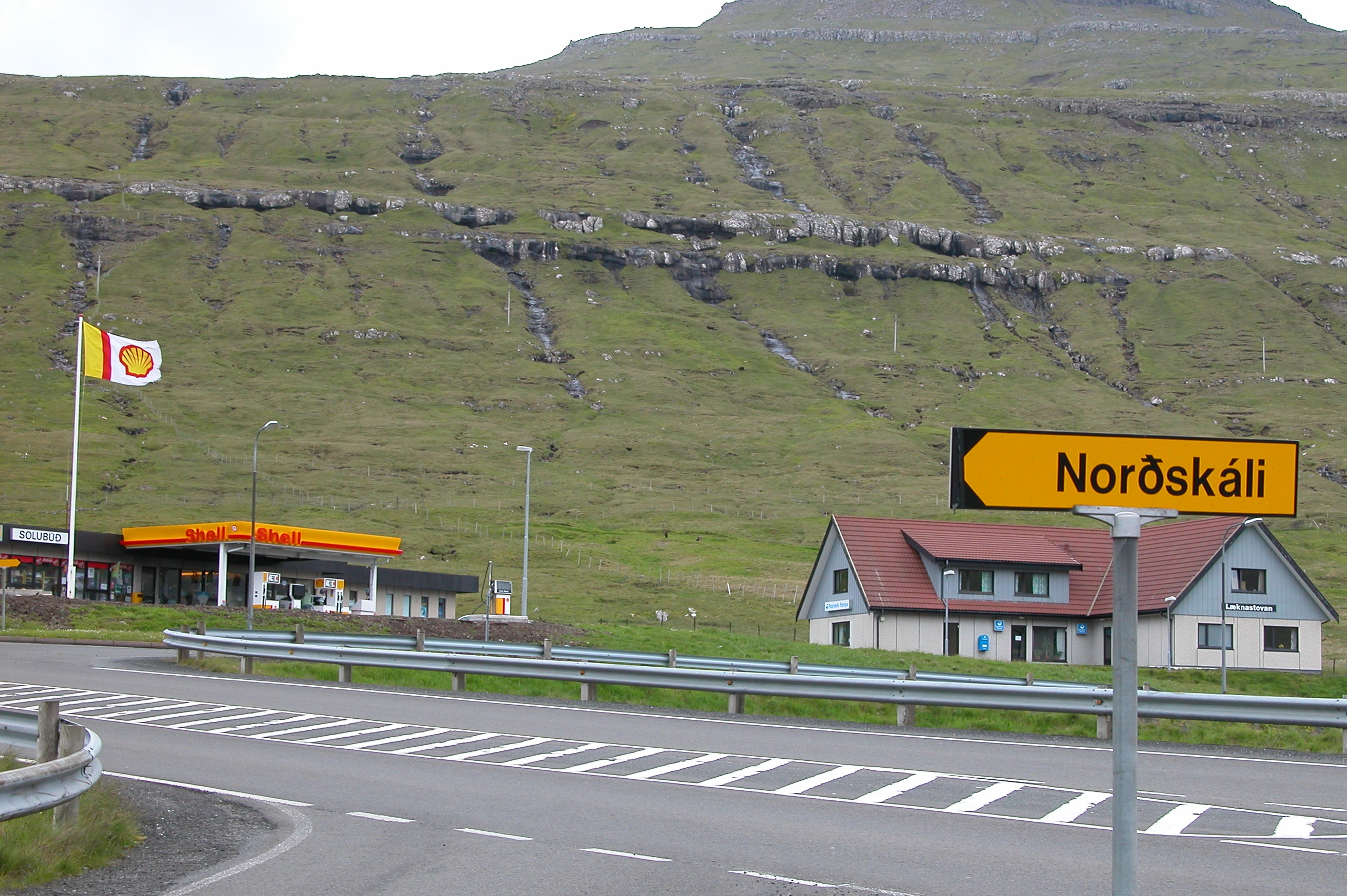 Shell station in Oyrarbakki at the bridge over the Sundini, Eysturoy, Faroe Islands.